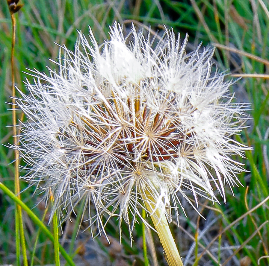 Image from the wild, Mt. Orjen Montenegro